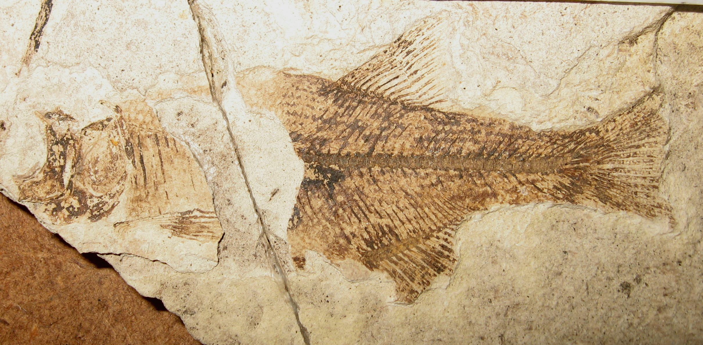 An 8cm Hiodon woodruffi specimen. 48.5 million years old, Klondike Mountain Formation, Republic, Washington, USA; Stonerose Interpretive Center # SR 87-33-02